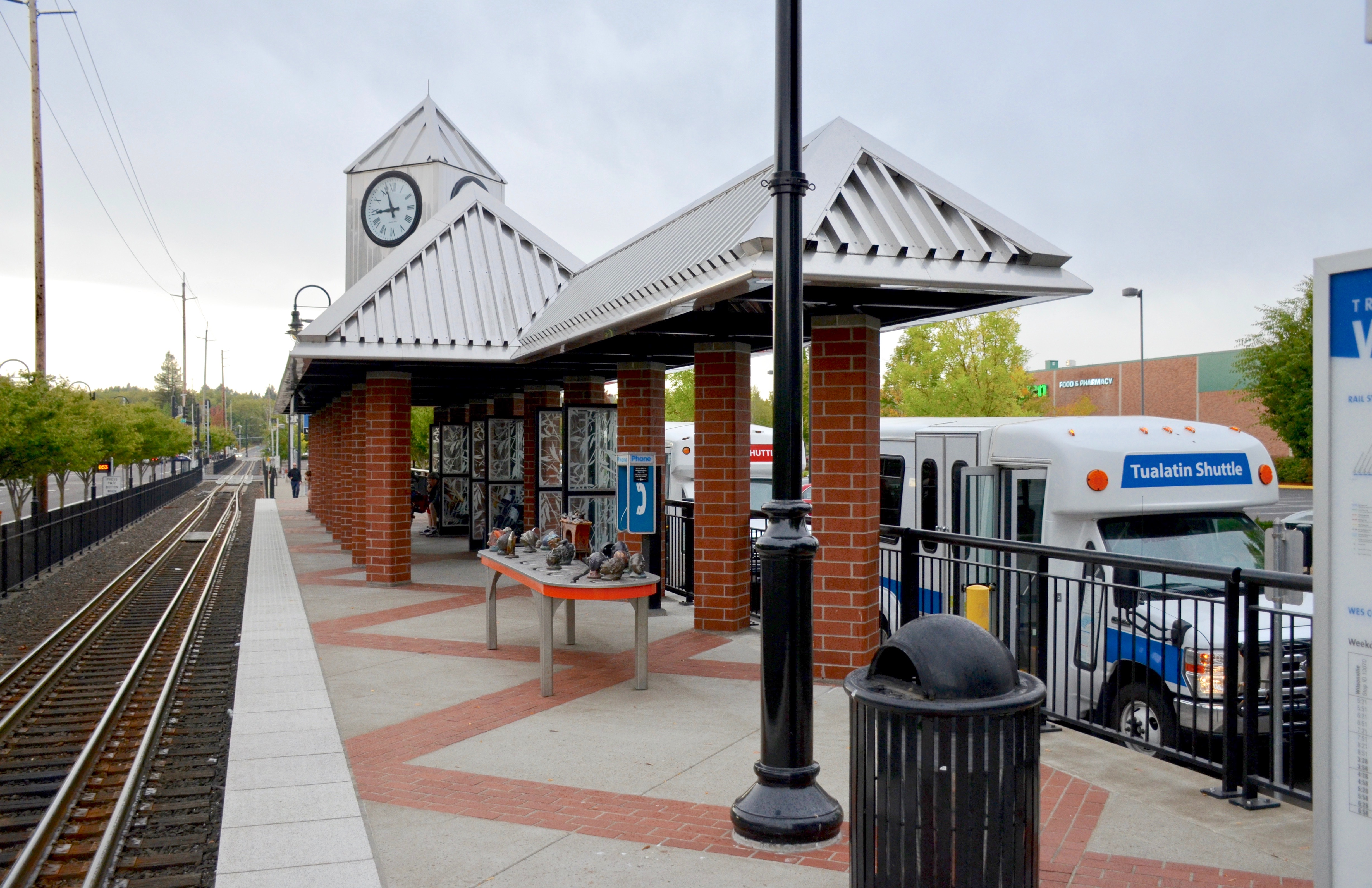 Platform view of Tualatin station (in Tualatin, Oregon), on the WES Commuter Rail line of TriMet. The gauntlet track (or interlaced track), at left, allows the Portland & Western freight trains that share the same line – but include some wider cars – to pass by safely. The commuter-rail cars (or trains, but on this line it is mostly single cars) use the set of rails that is aligned to bring them closer to the platform, flush with the edge of the platform. This view is looking south. At right, minibuses on shuttle services are waiting for the next train to arrive.